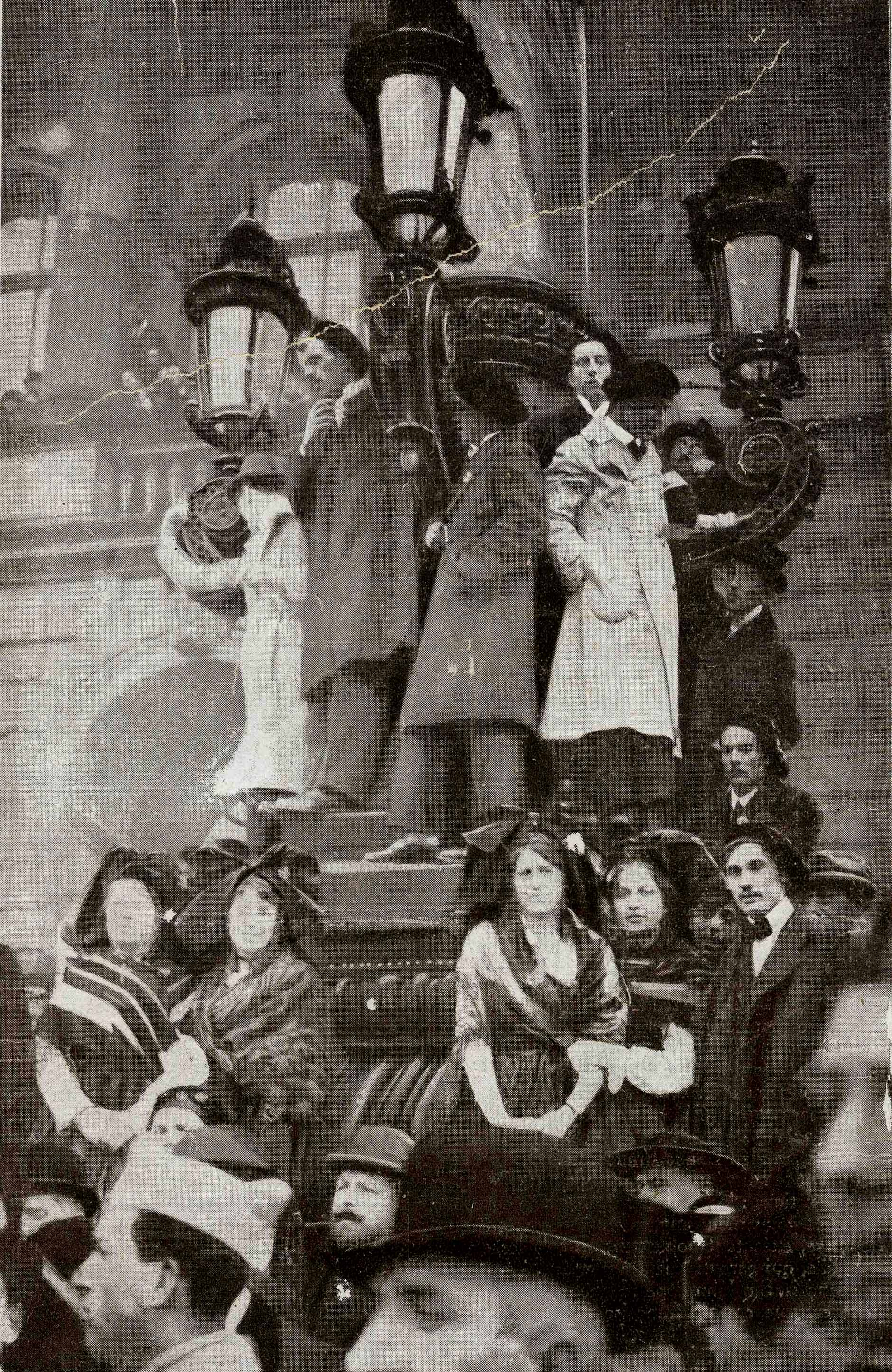 University of Strasbourg back to France in 1919, after WWI